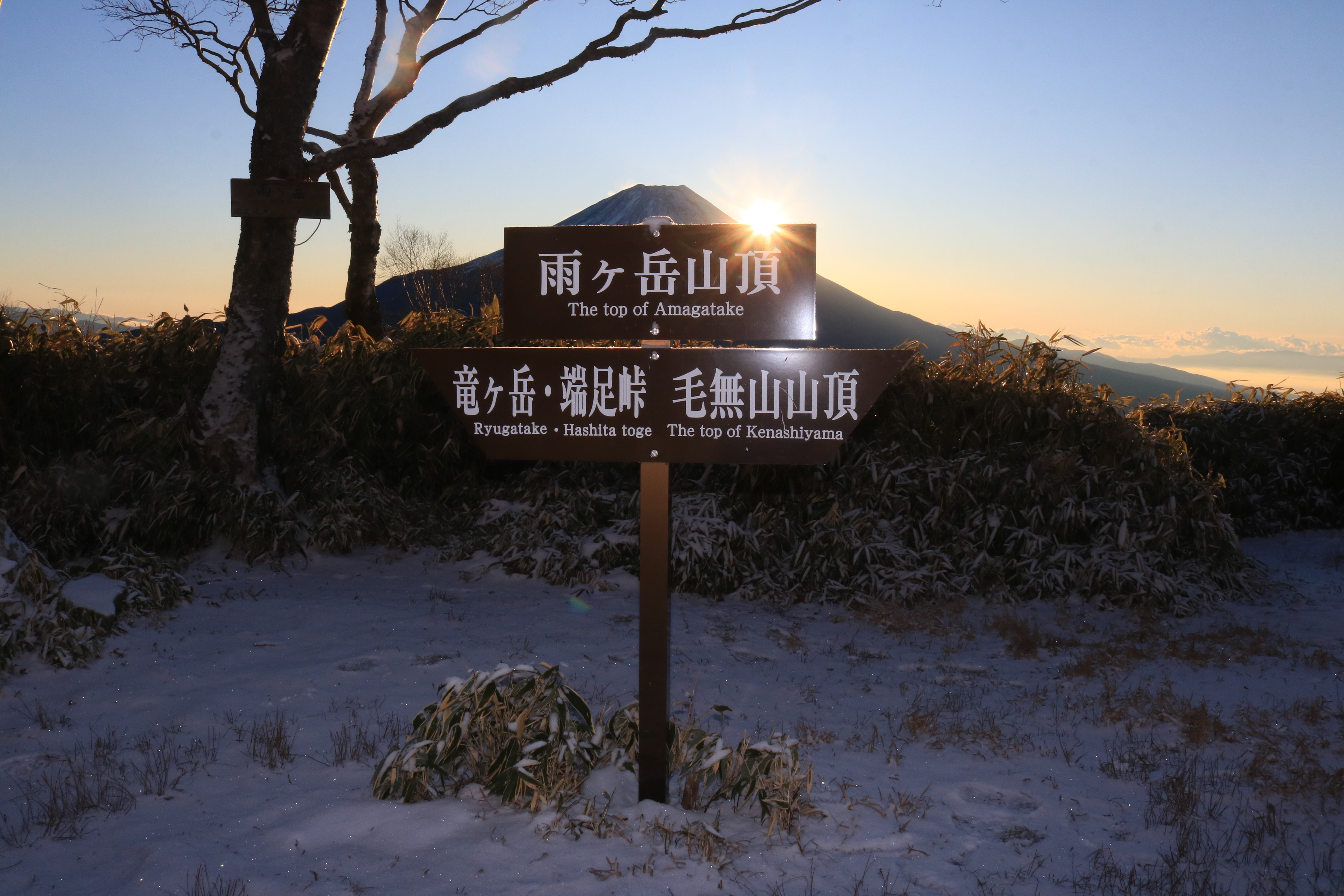 Mount Fuji and sunrise seen from Mount Ama (Tenshi Mounatins) in Japan.